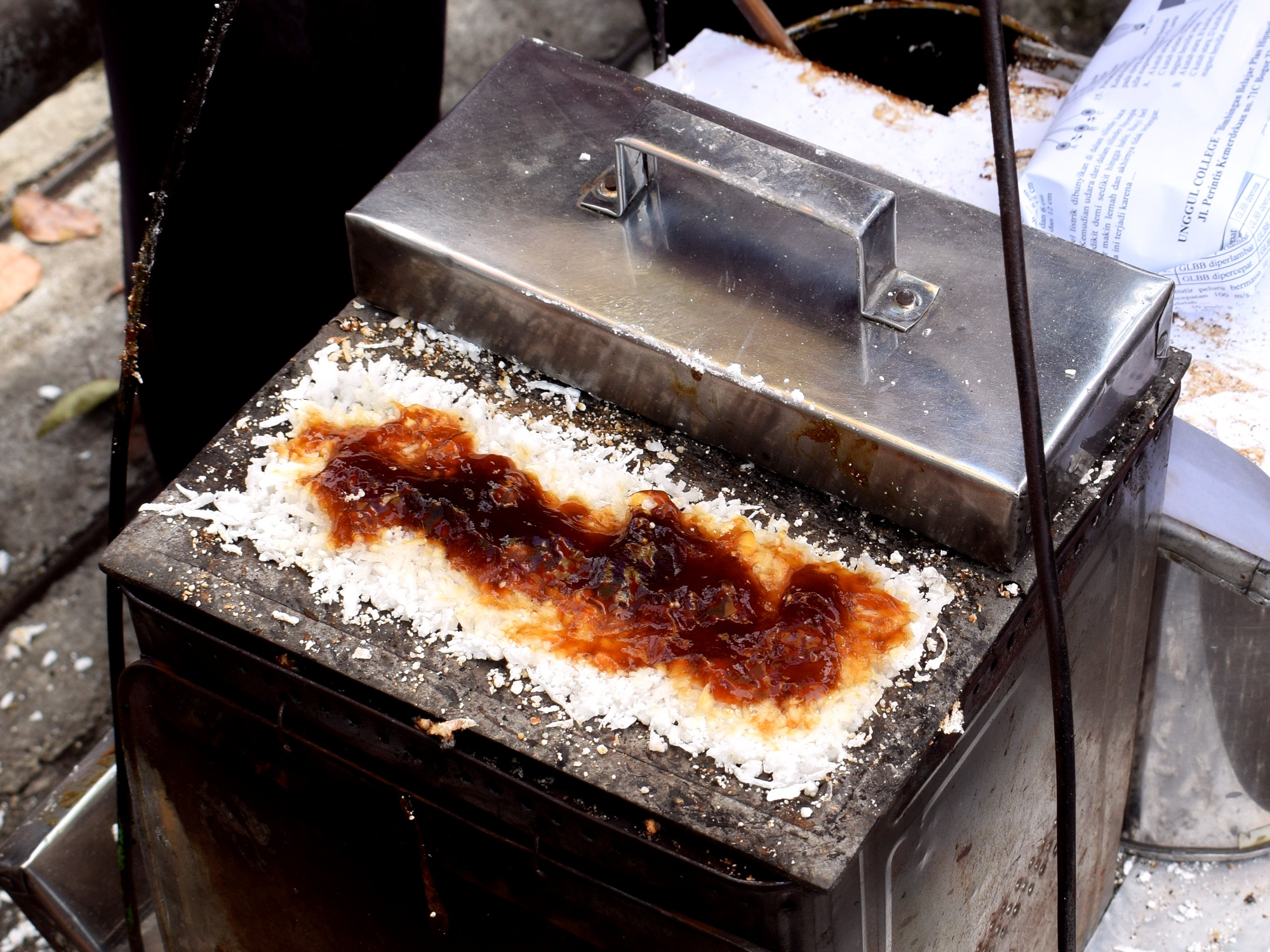 Kue rangi (made of tapioca flour mixed with grated coconut) with sweet cassava jelly spread, baked on it's stove. Bogor, West Java, Indonesia.